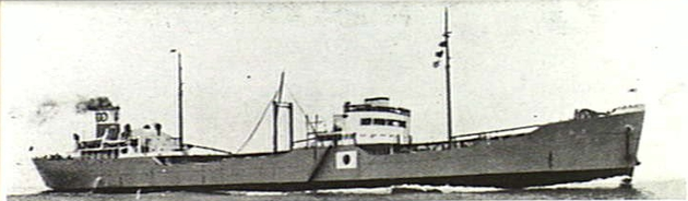 JAPANESE SHIP SINKOKU MARU. THIS SHIP WAS DAMAGED AND SET ON FIRE AT SINGAPORE BY MAJOR LYON AND A.B. HUSTON OF THE OPERATIVE PARTY OF OPERATION JAYWICK. OPERATION JAYWICK WAS CONDUCTED FROM 1943-09-01 TO 1943-10-19 AND INVOLVED A CLANDESTINE ATTACK BY A GROUP OF SIX ALLIED OPERATIVES AGAINST JAPANESE SHIPPING AT SINGAPORE.